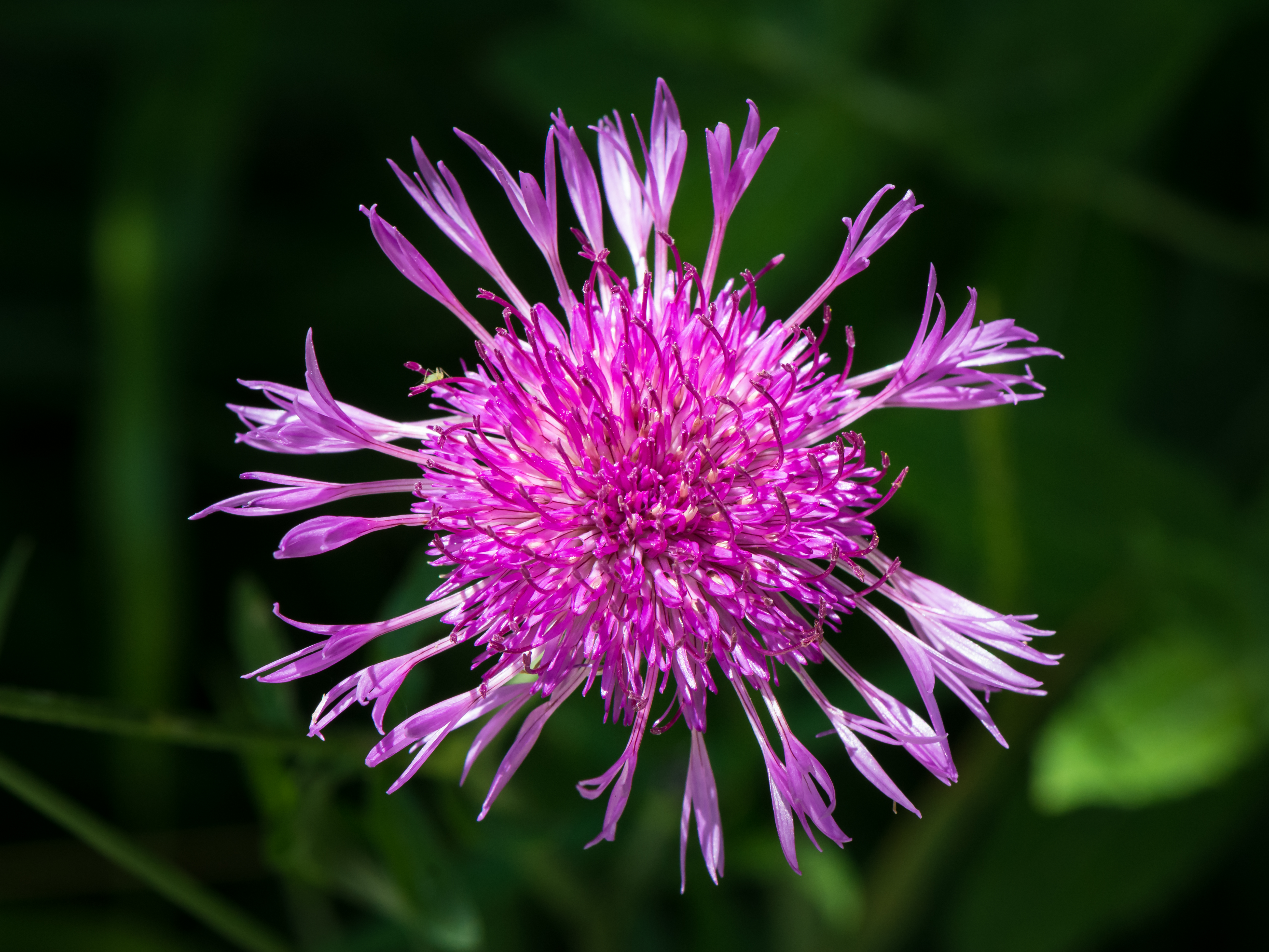 Brown Knapweed (Centaurea jacea) found near Hagengut, Mitterbach am Erlaufsee, Lower Austria